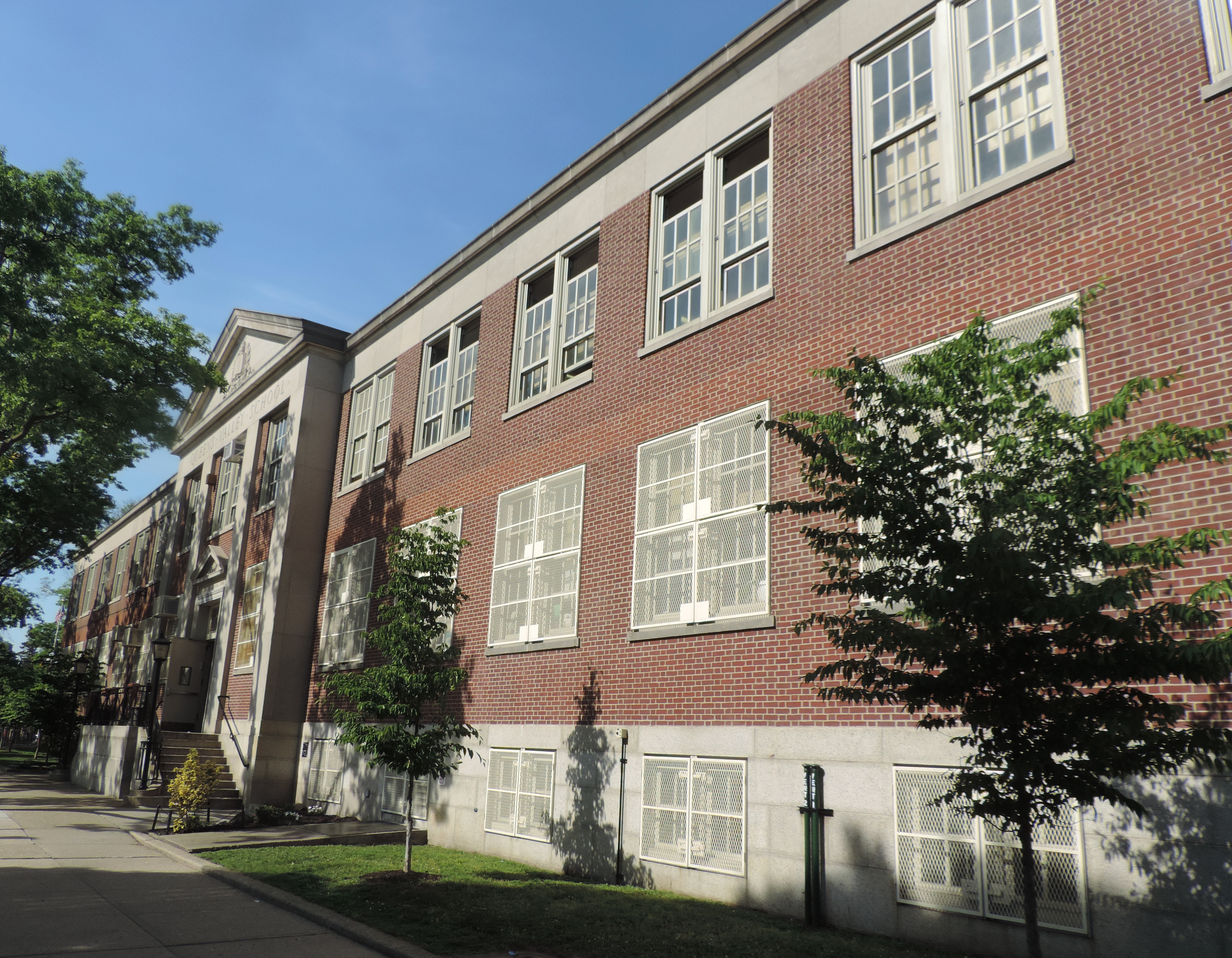 Looking north from 137th Street at Queens Valley School of the Arts on a sunny afternoon